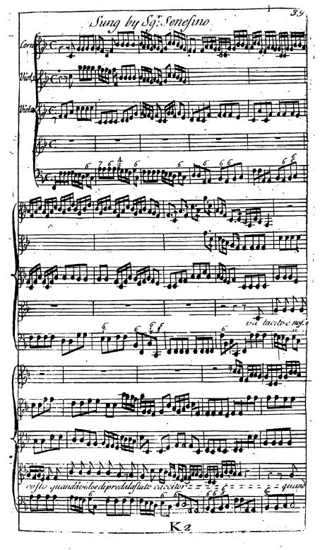 Aria "Va tacito e nascosto" from Handel's opera Giulio Cesare in the first published edition (1724, London)